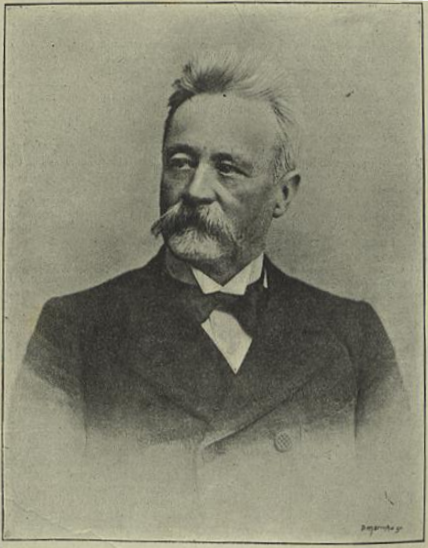 Physician, researcher and Professor Curry Cabral (1844-1920) in O Occidente (1899)